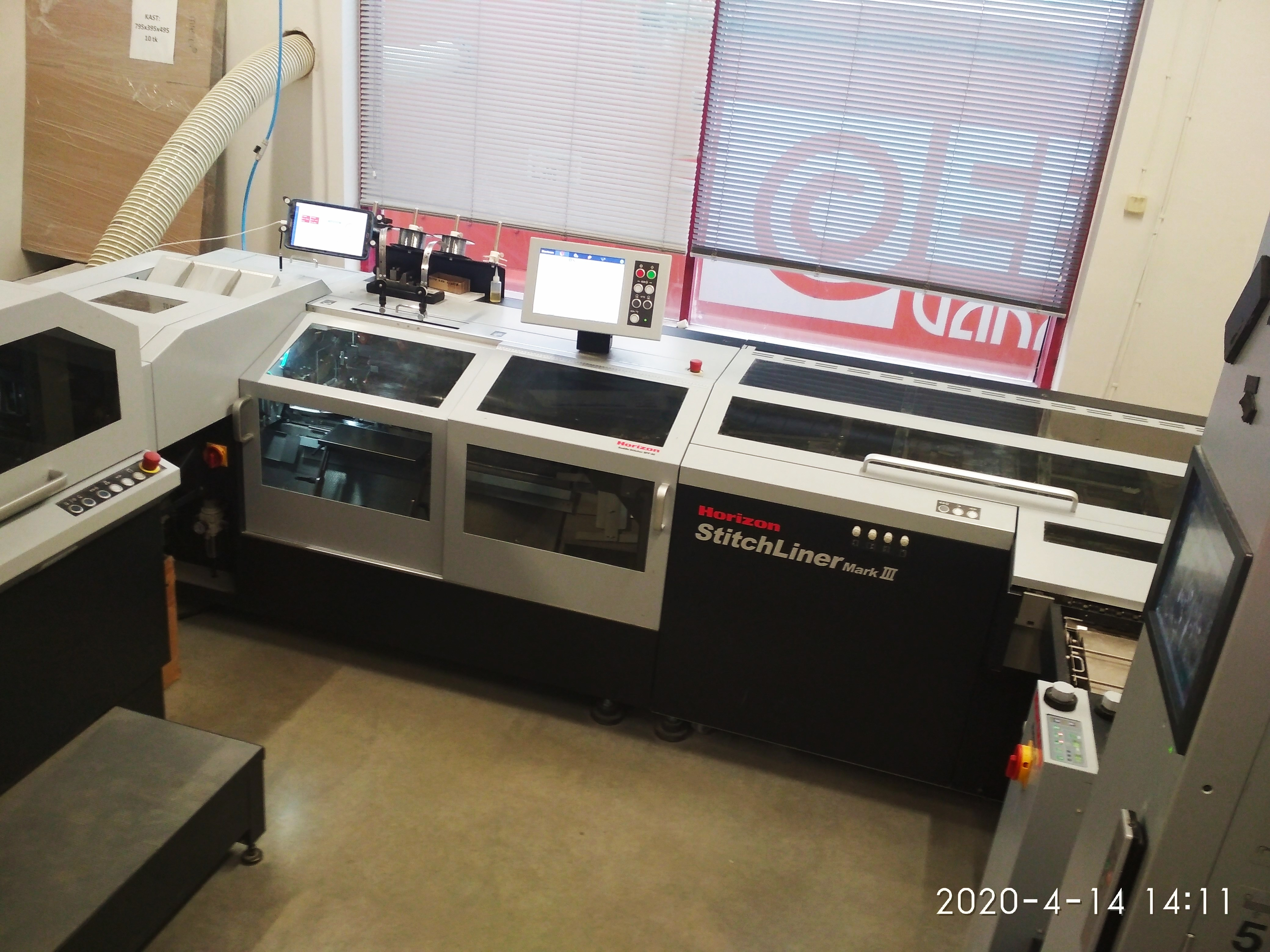 Section for stitching